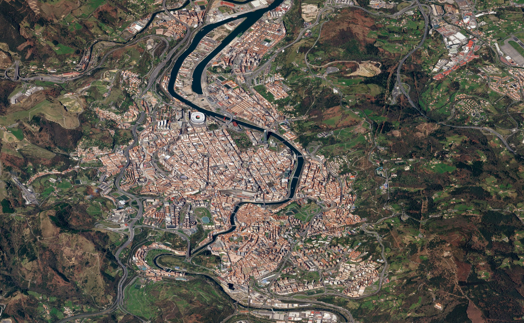 Bilbao, Spain.